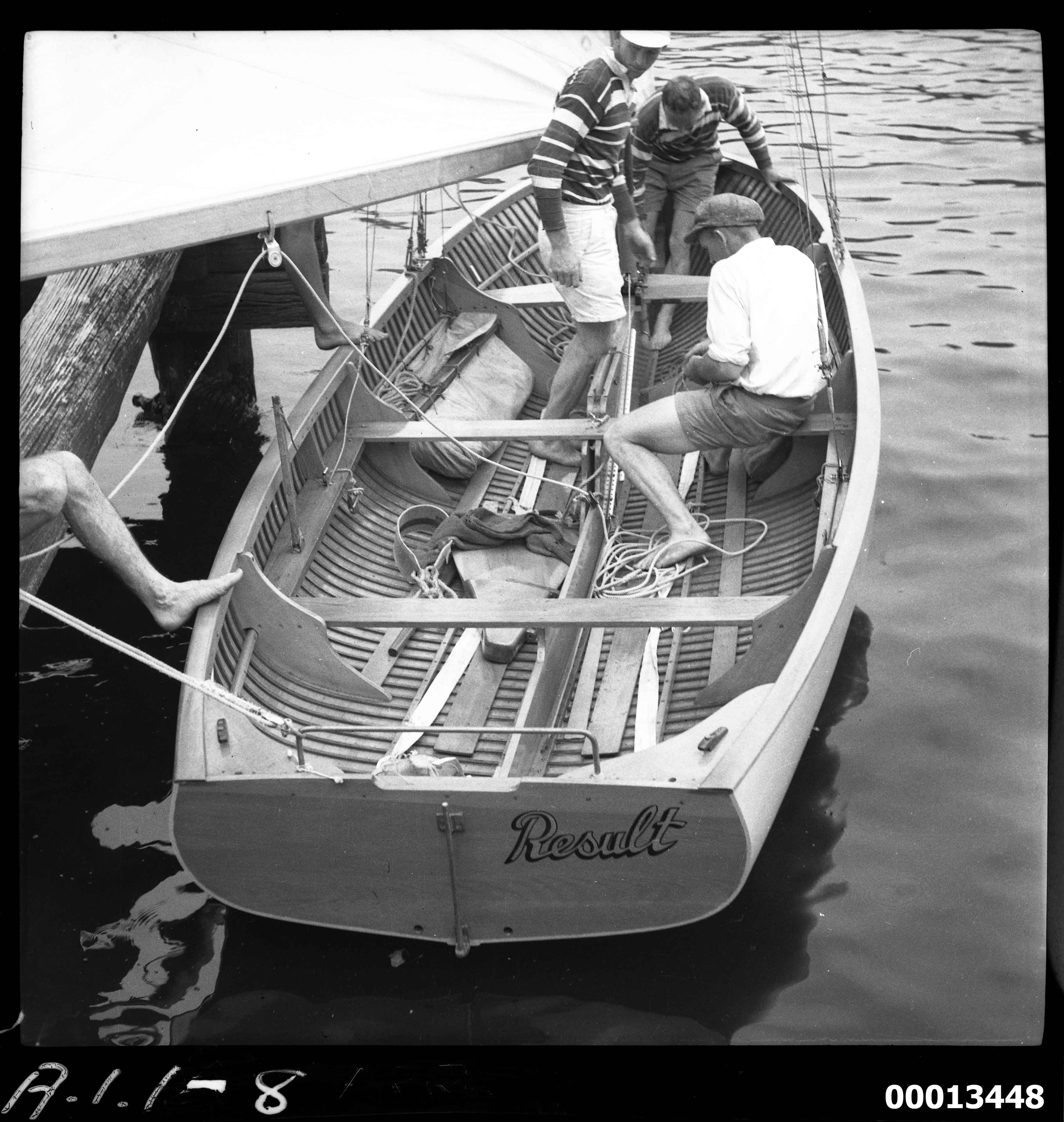 New Zealand yacht RESULT was designed and built by owner Howard Pascoe. Pascoe sailed RESULT in the 1951 World's 18-footers Championship held in Sydney. The title was won by MYRA TOO, an Australian yacht designed, built and skippered by Bill Barnett of Berrys Bay, Sydney. In this image, an early trapeze belt can be seen on the floor of the yacht. This photo is part of the Australian National Maritime Museum’s William J Hall collection. The Australian National Maritime Museum undertakes research and accepts public comments that enhance the information we hold about images in our collection. If you can identify a person, vessel or landmark, write the details in the Comments box below. Thank you for helping caption this important historical image. Object number 00013448